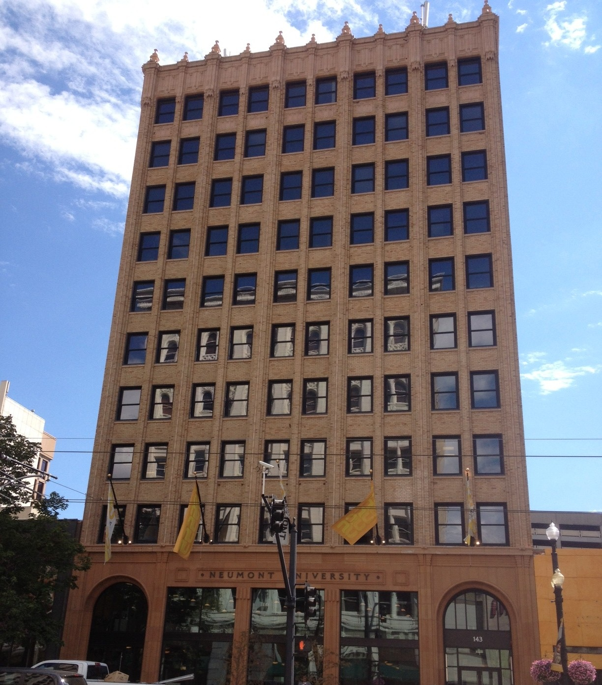 Tribune Building, 137 S. Main St. Downtown